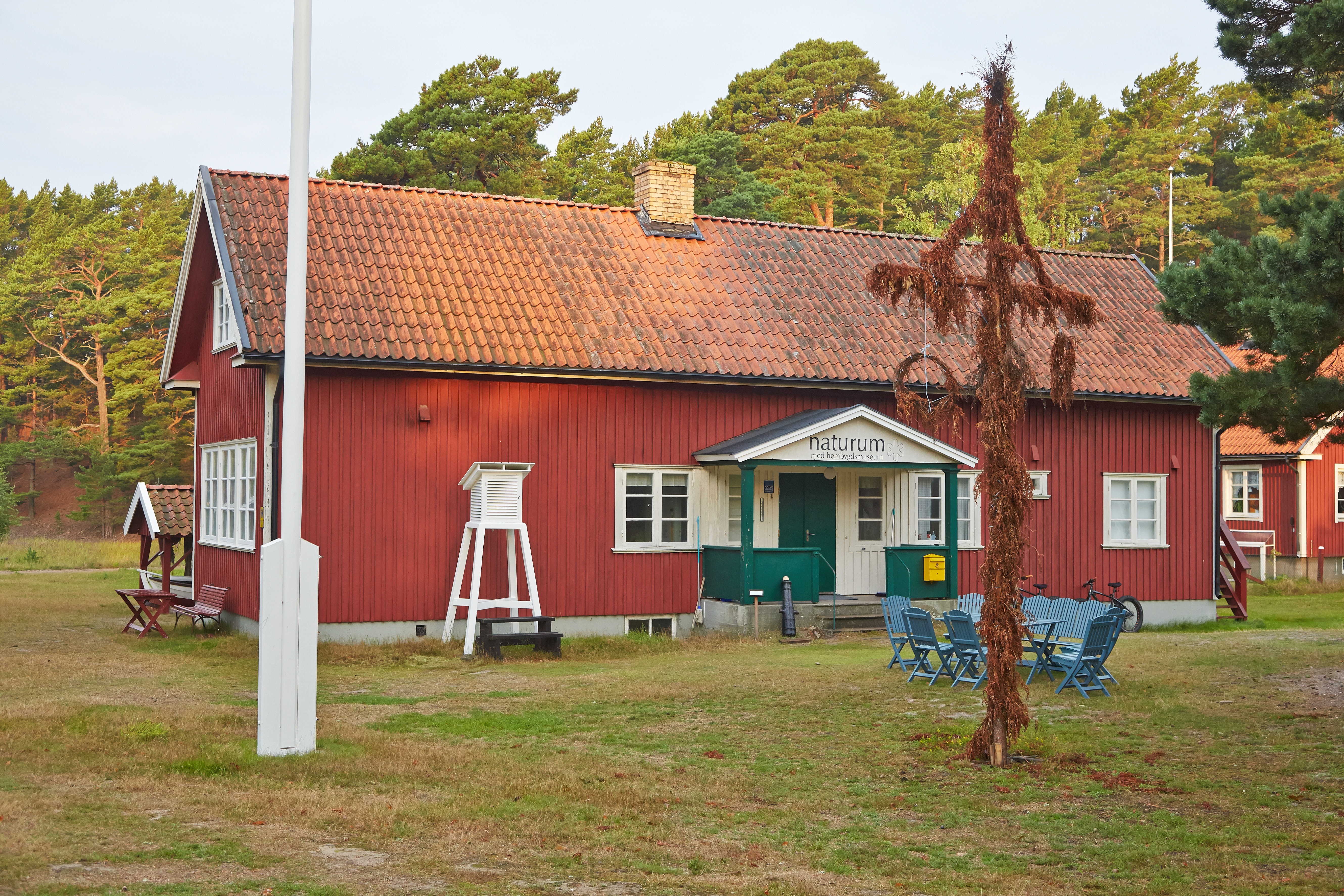 Fyrbyn, Gotska Sandön